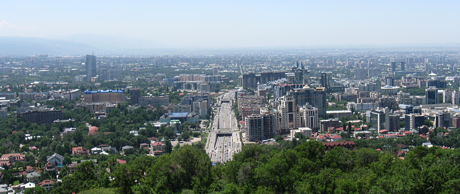 Panoramic view of Almaty from the Kok Tobe viewing hill top.